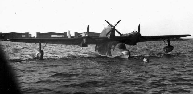 A Blohm & Voss BV 138, seen on Siutghiol lake, near Constanta, in 1943.